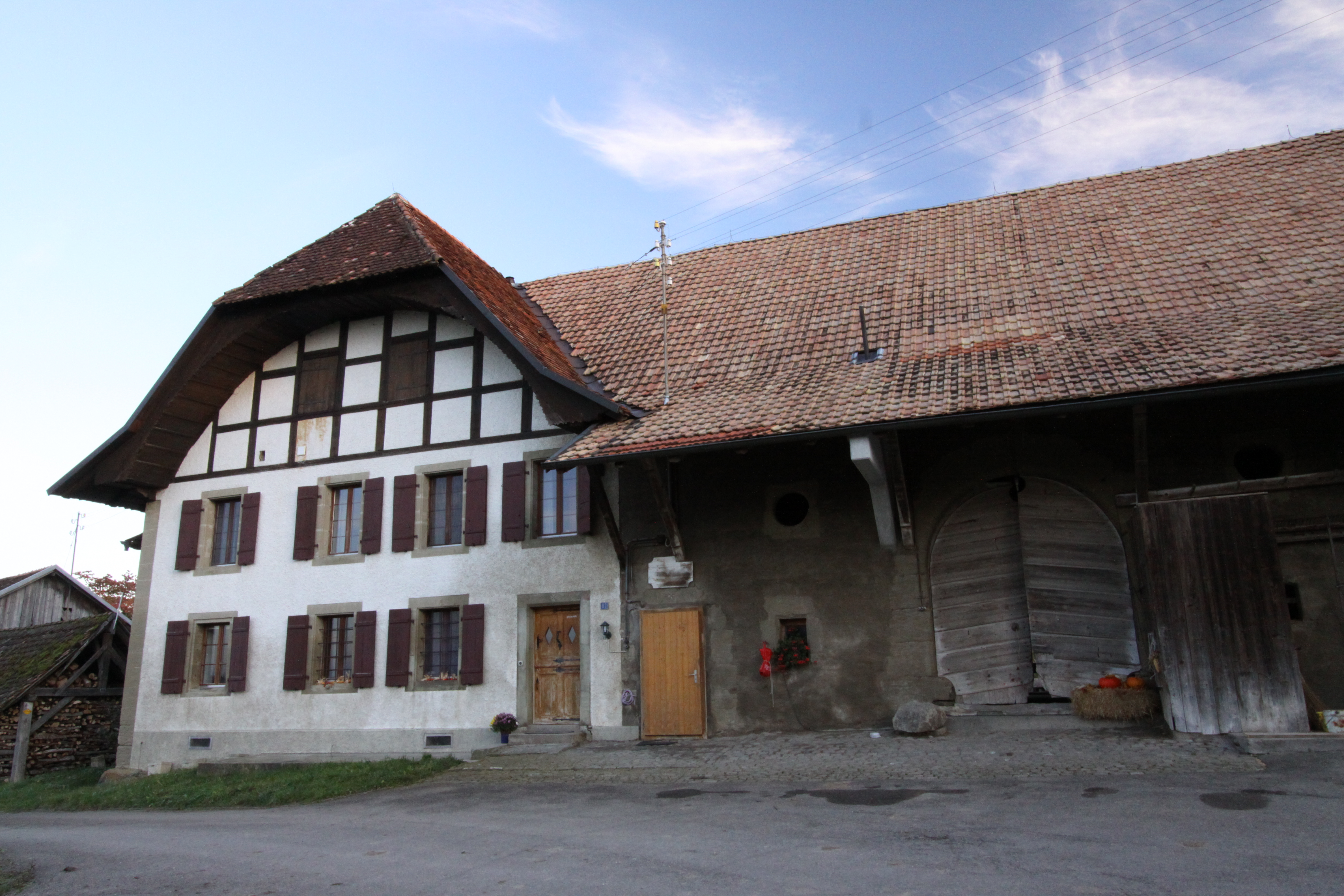 Farmhouse of the Commandery of Saint Jean, Chemin de Villarsel 83, Villarsel-sur-Marly